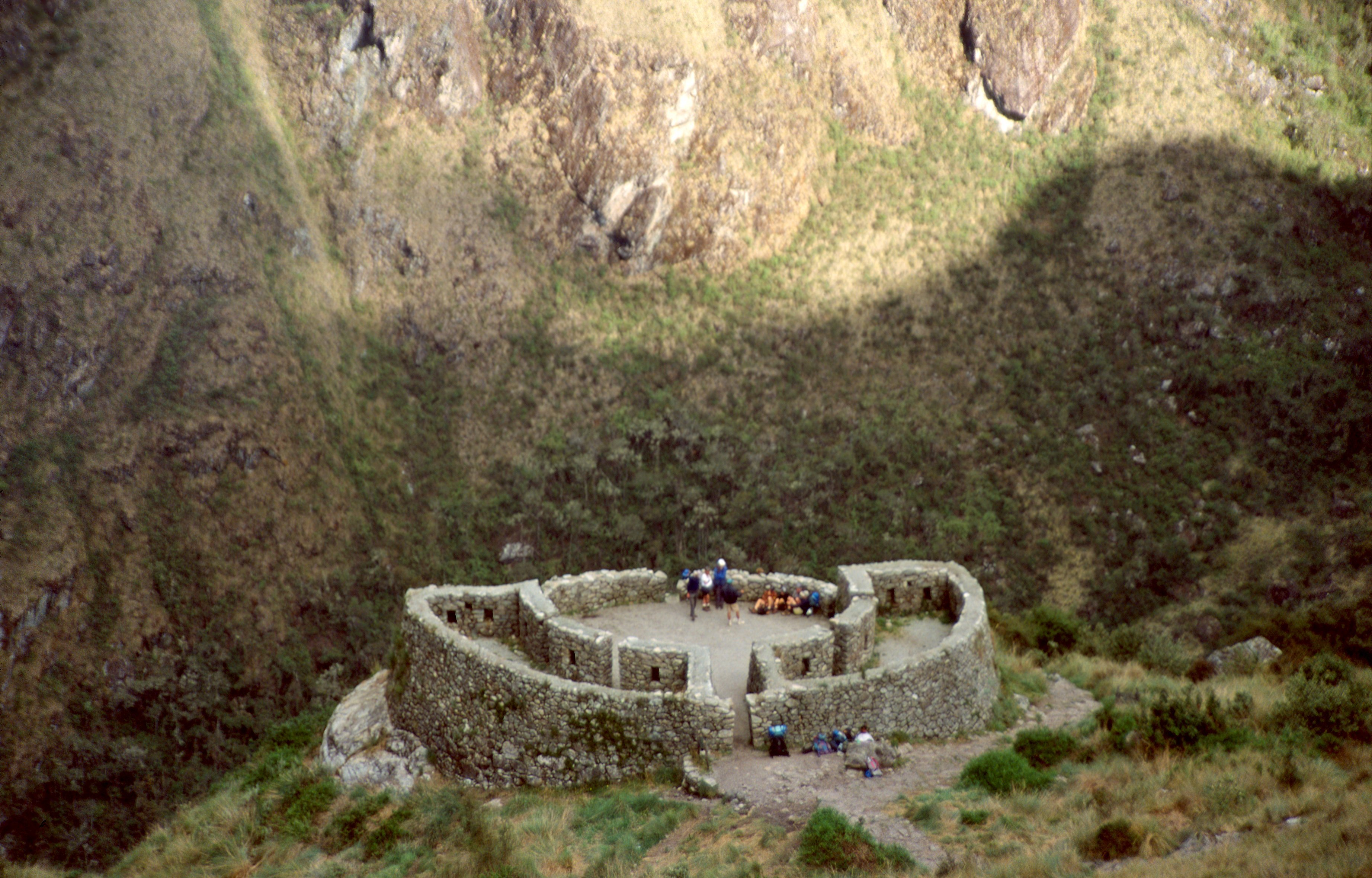 Inca trail from Cusco to Machu Picchu in Perú. Day 2. Inca ruins.